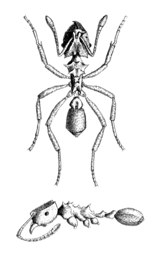 Mycocepurus smithii black and white plate.